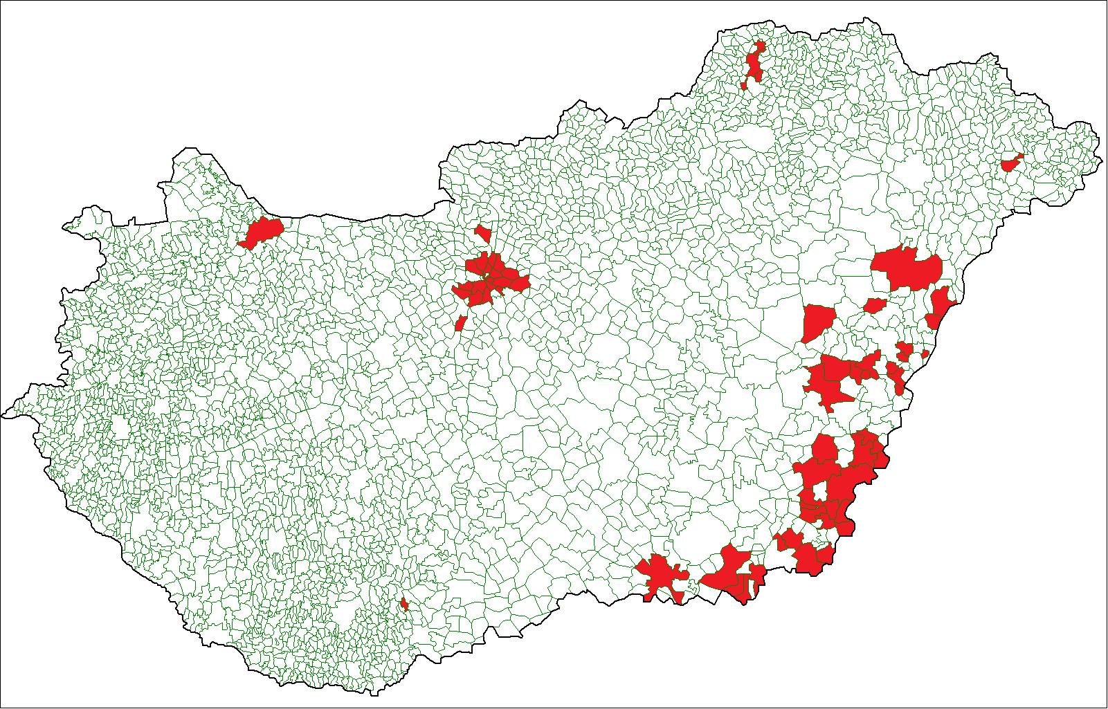 Local elections of minorites in Hungary, 2010; The ethnic romanian elections ██ = Ethnic romanian elections